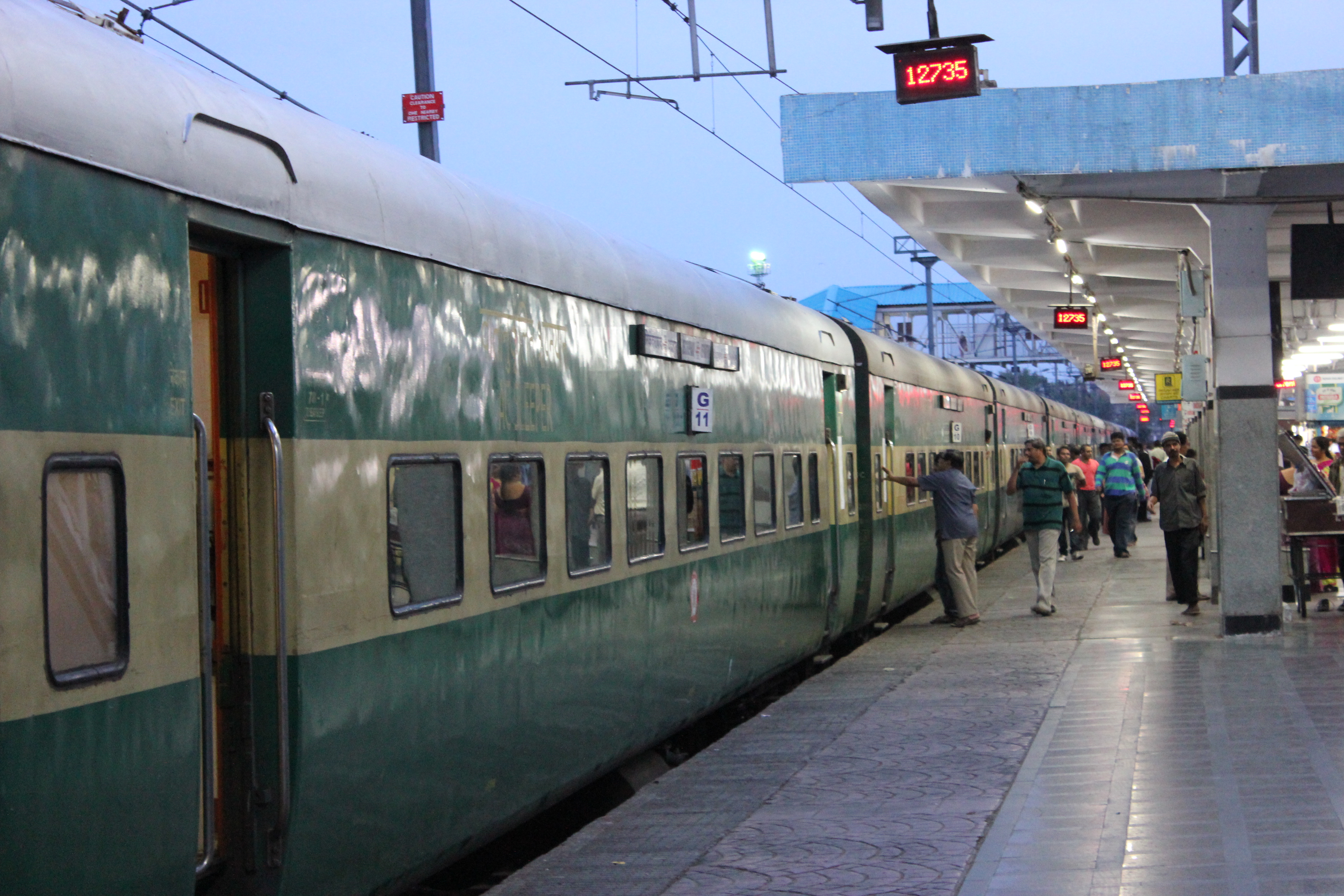 Secunderabad Yeshwanthpur Garibrath at Secunderabad Jn.